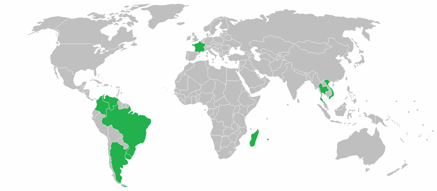 Groupe Casino global locations